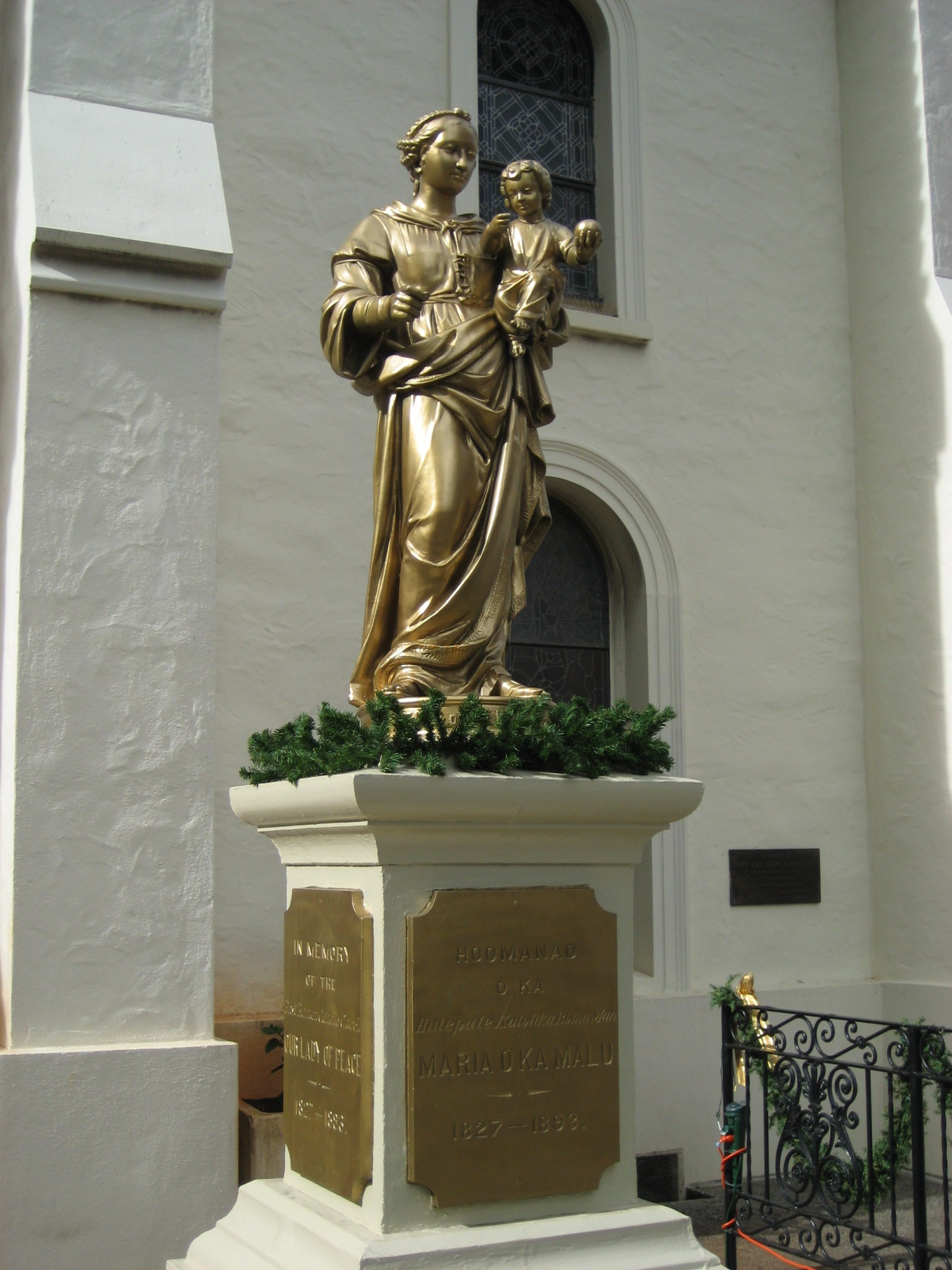 Photograph of the statue dedicated to Malia O Ka Malu (Our Lady of Peace) in the courtyard in front of the Cathedral of Our Lady of Peace in Honolulu, Hawaii.